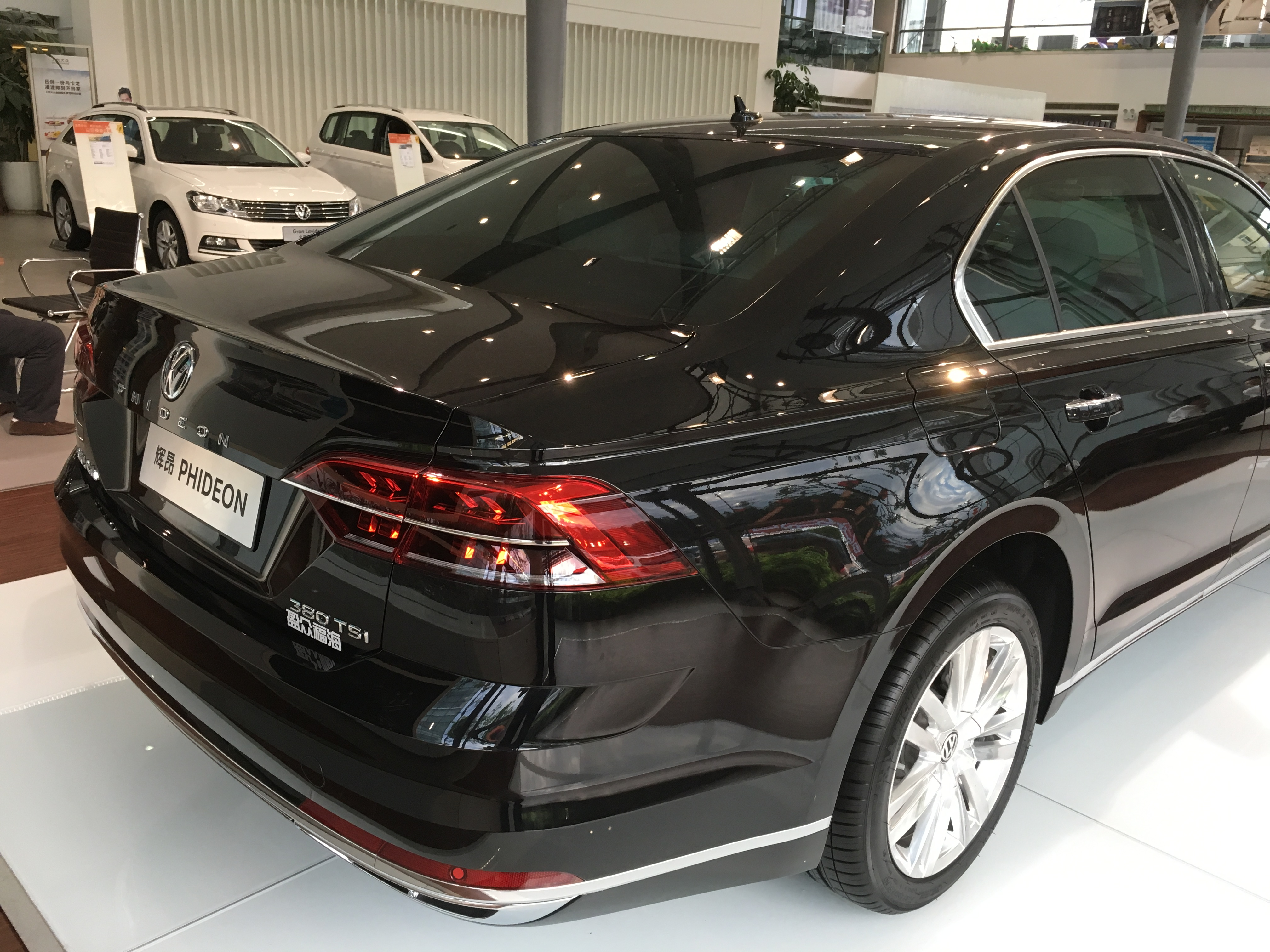 Luxury Class Volkswagen VW Phideon, rear view, Made in Shanghai, P.R. China